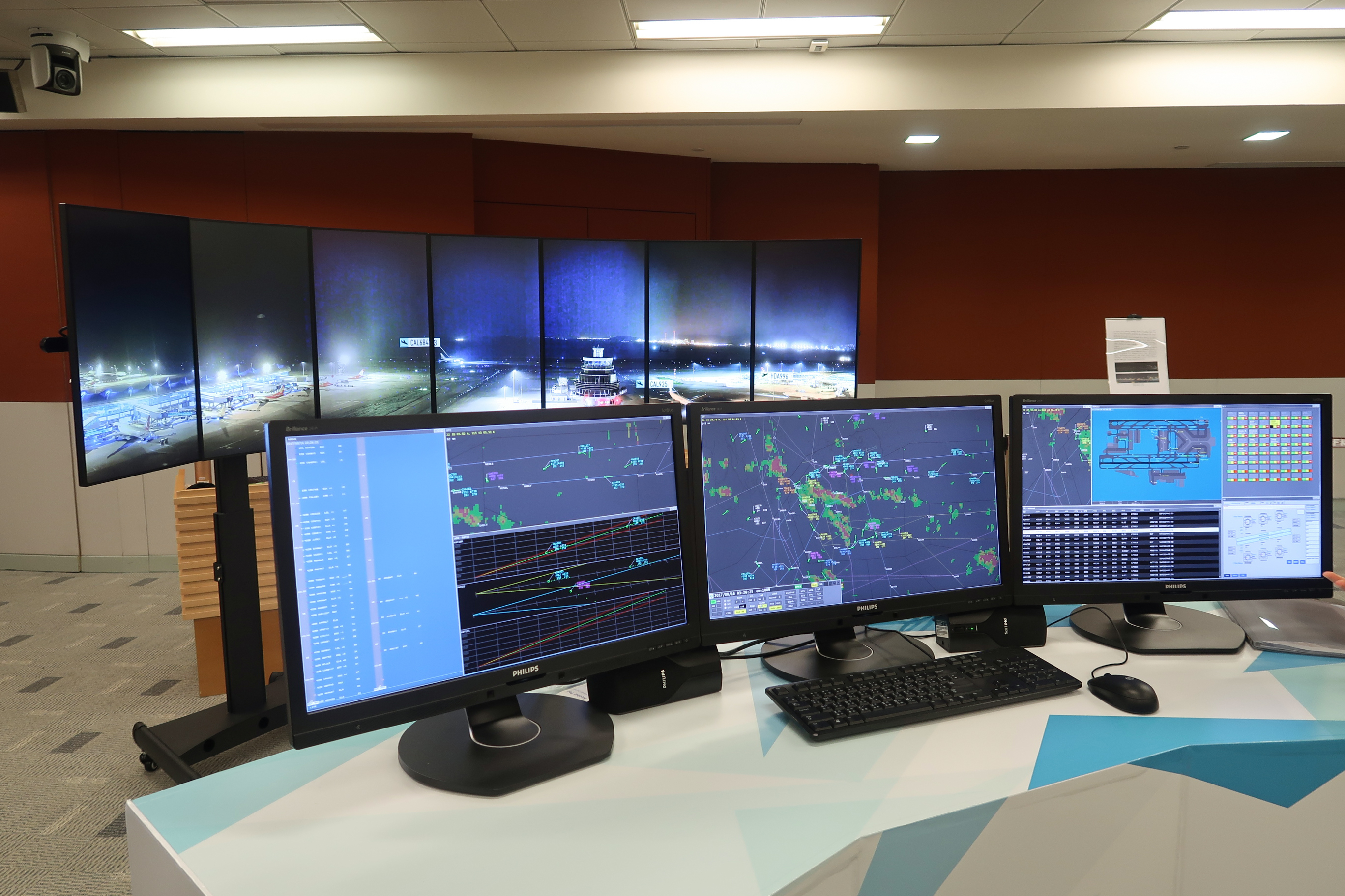 Civil Aviation Department Headquarters Control tower facilities demonstration